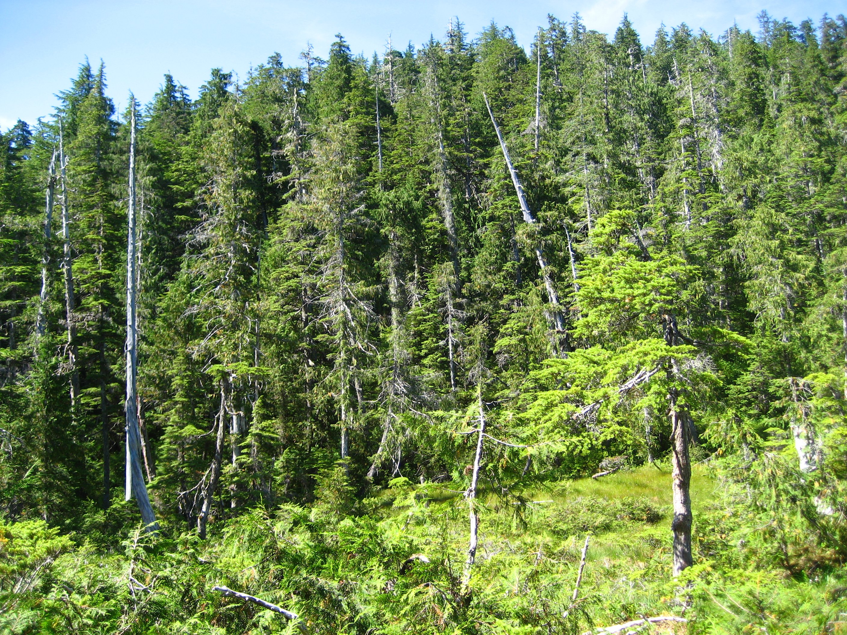 Alaskan coastal temperate rainforest with Cupressus nootkatensis, Picea sitchensis, and Tsuga heterophylla. Poison Cove, Chichagof Island, Alaska.